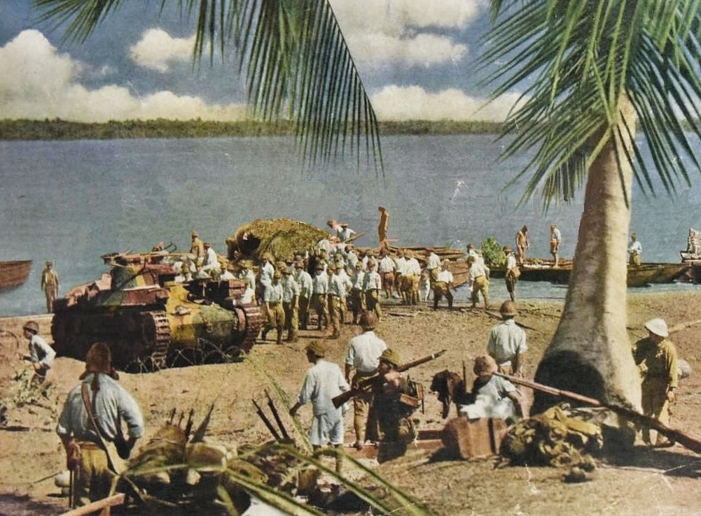 A Type 97 Chi Ha Tank of the IJA 1st Tank Regiment During the invasion of Singapore, 1942.